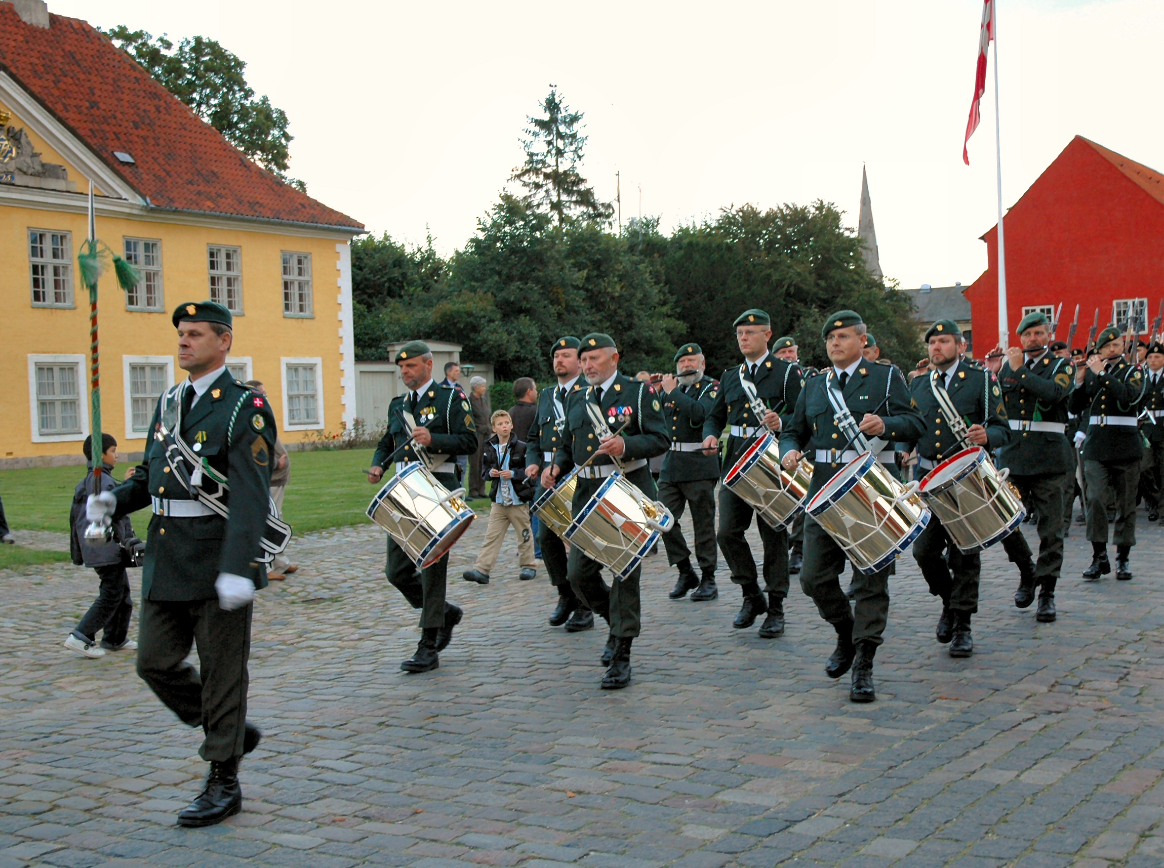 Danish Home Guard Military band in Copenhagen.